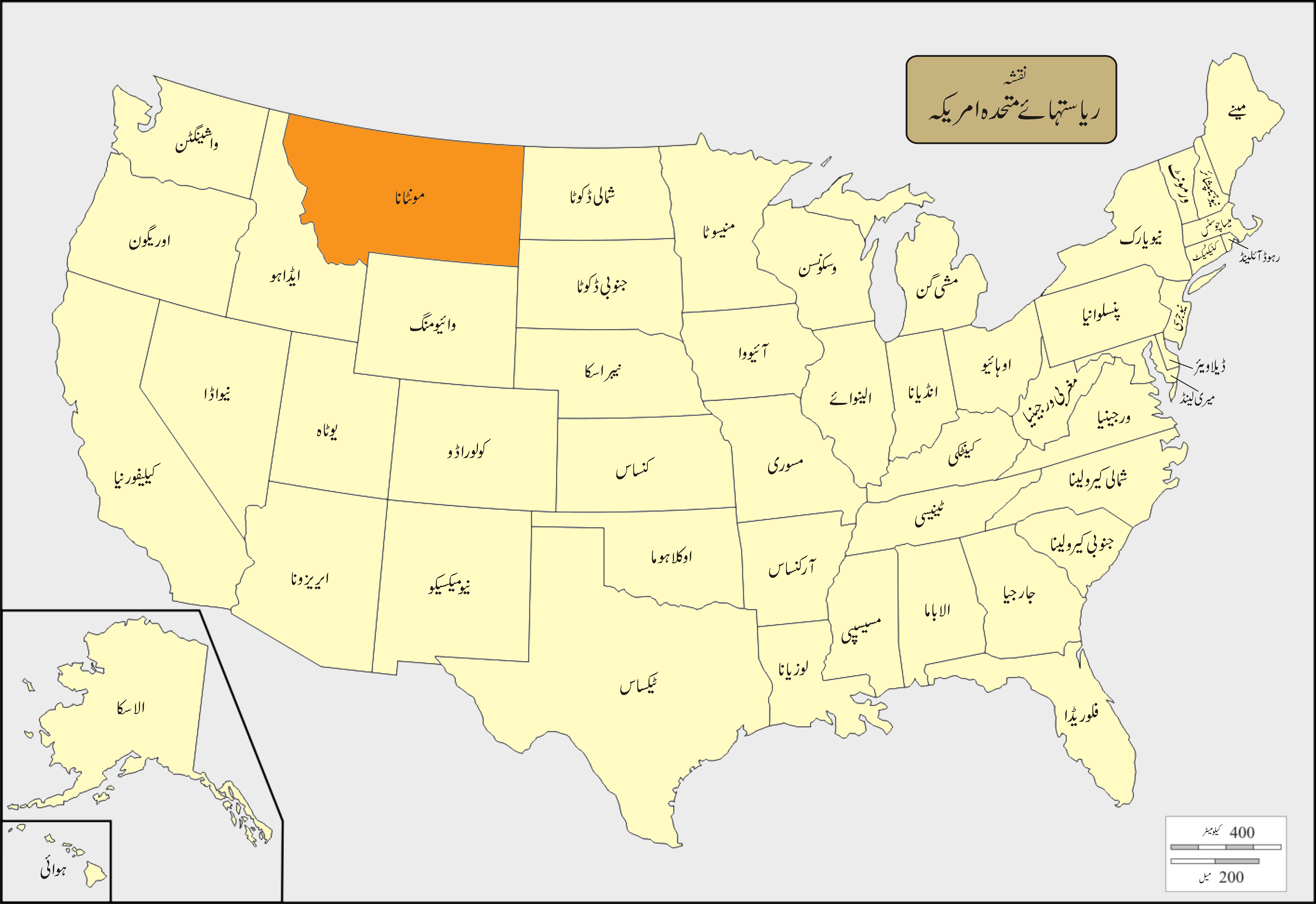 USA Names Montana